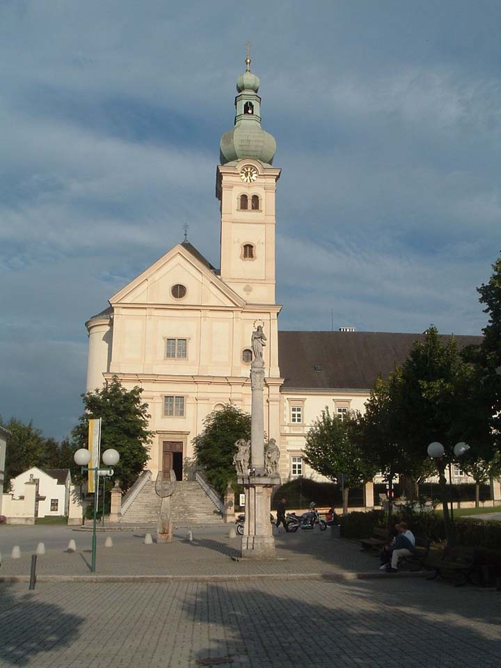 The roman catholic church of Lockenhaus, Burgenland, Austria